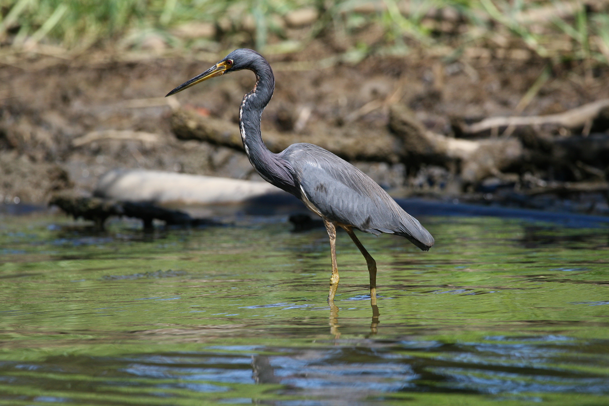 Tricolored Heron, picture taken in Tortuguero national park, Costa Rica